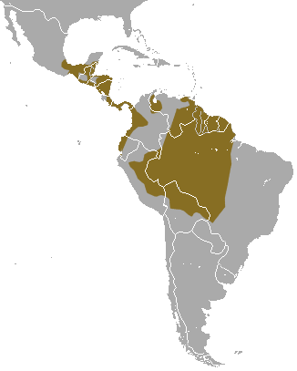 Gray Four-eyed Opossum (Philander opossum) range